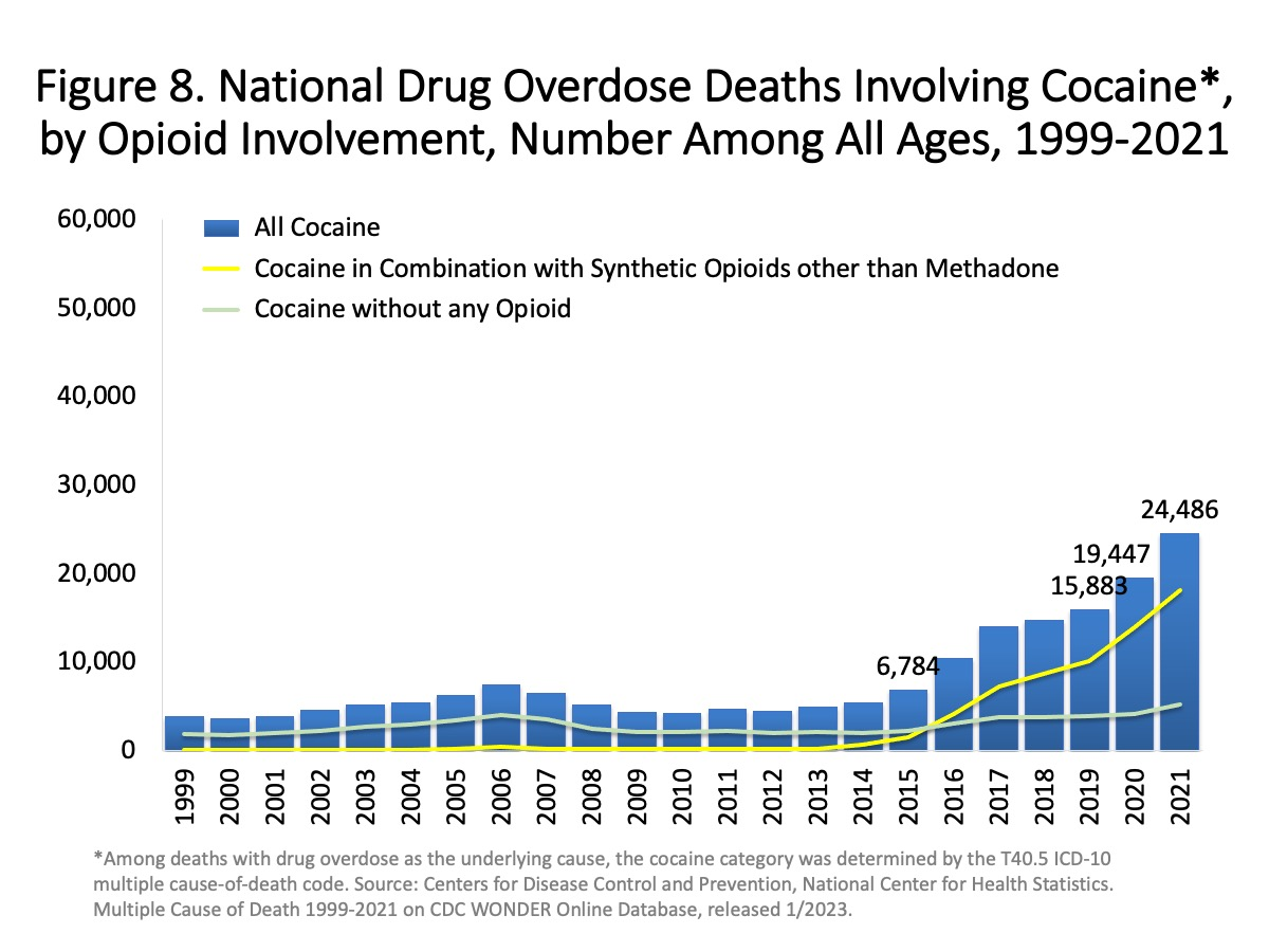 "Figure 7. National Drug Overdose Deaths Involving Cocaine, by Opioid Involvement–Number Among All Ages, 1999-2017. The figure above is a bar and line graph showing the total number of U.S. overdose deaths involving cocaine from 1999 to 2017. Drug overdose deaths involving cocaine rose from 3,822 in 1999 to 13,942 in 2017. The bars are overlaid by lines showing the number of deaths involving cocaine and any opioid, cocaine without any opioid, and cocaine and other synthetic narcotics. The number of deaths in combination with any opioid has been increasing steadily since 2014 and is mainly driven by deaths involving cocaine in combination with other synthetic narcotics (Source: CDC WONDER)."